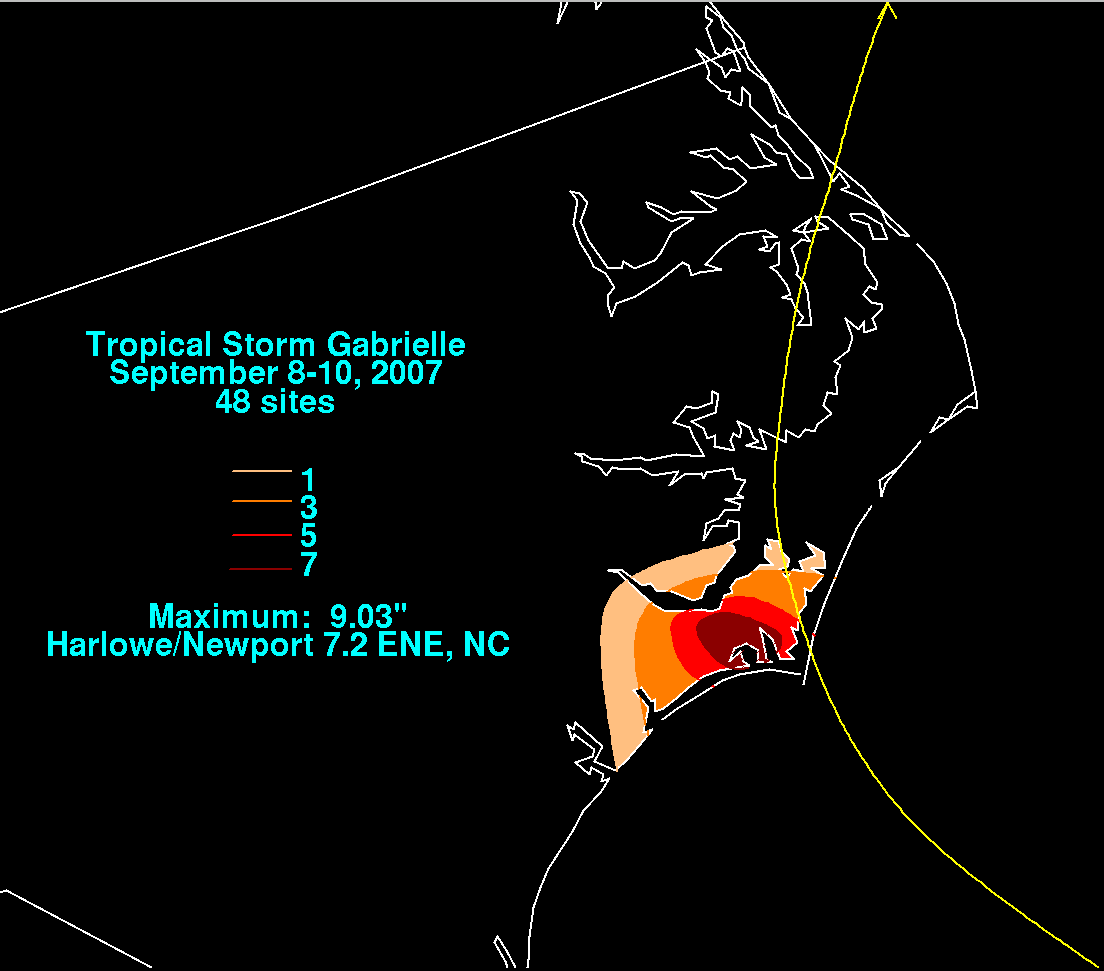 Rainfall produced by Tropical Storm Gabrielle during September 2007.